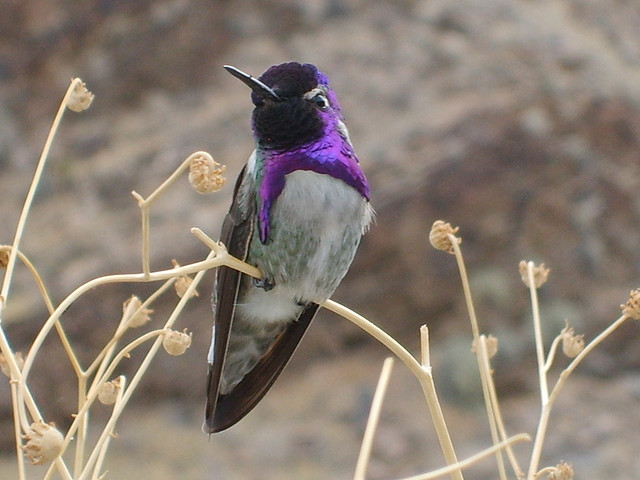 Awesome little hummingbird. It's hard to capture on film, but the whole top of its head was this amazing irridescent purple, it would flash from black to purple as feathers caught the light at different angles.